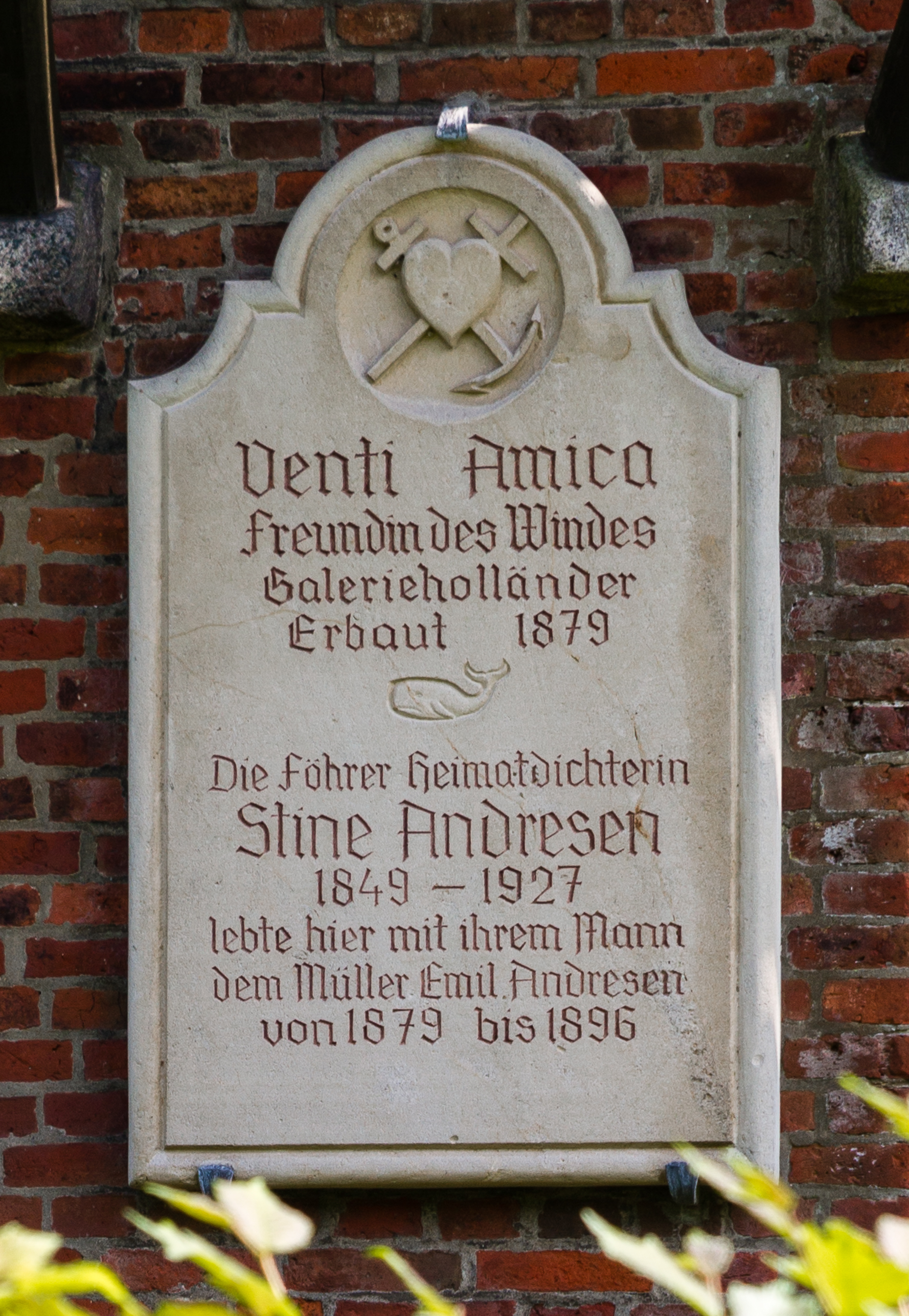 Designation: Windmill Venti Amica Location: Mühlenstraße House number: 33 Place: Wyk, Collective municipality Föhr-Amrum, District Nordfriesland, Schleswig-Holstein, Federal Republic of Germany Construction time: 1879 Description: Smock mill Memorial plaque Stine Andresen Object identification: 768